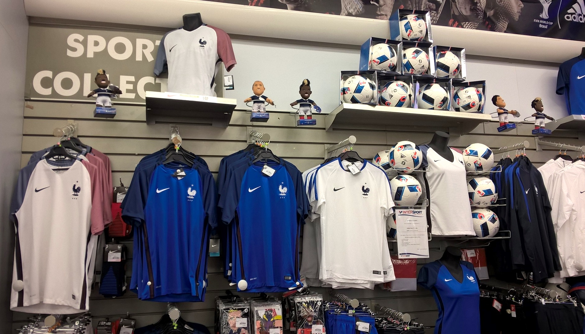 France jersey Euro 2016